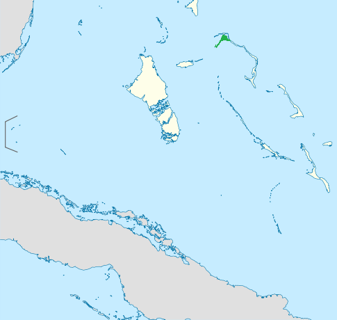 Location map of the Bahamas Equirectangular projection, N/S stretching 105 %. Geographic limits of the map: * N: 27.5° N * S: 20.7° N * W: 80.7° W * E: 70.8° W